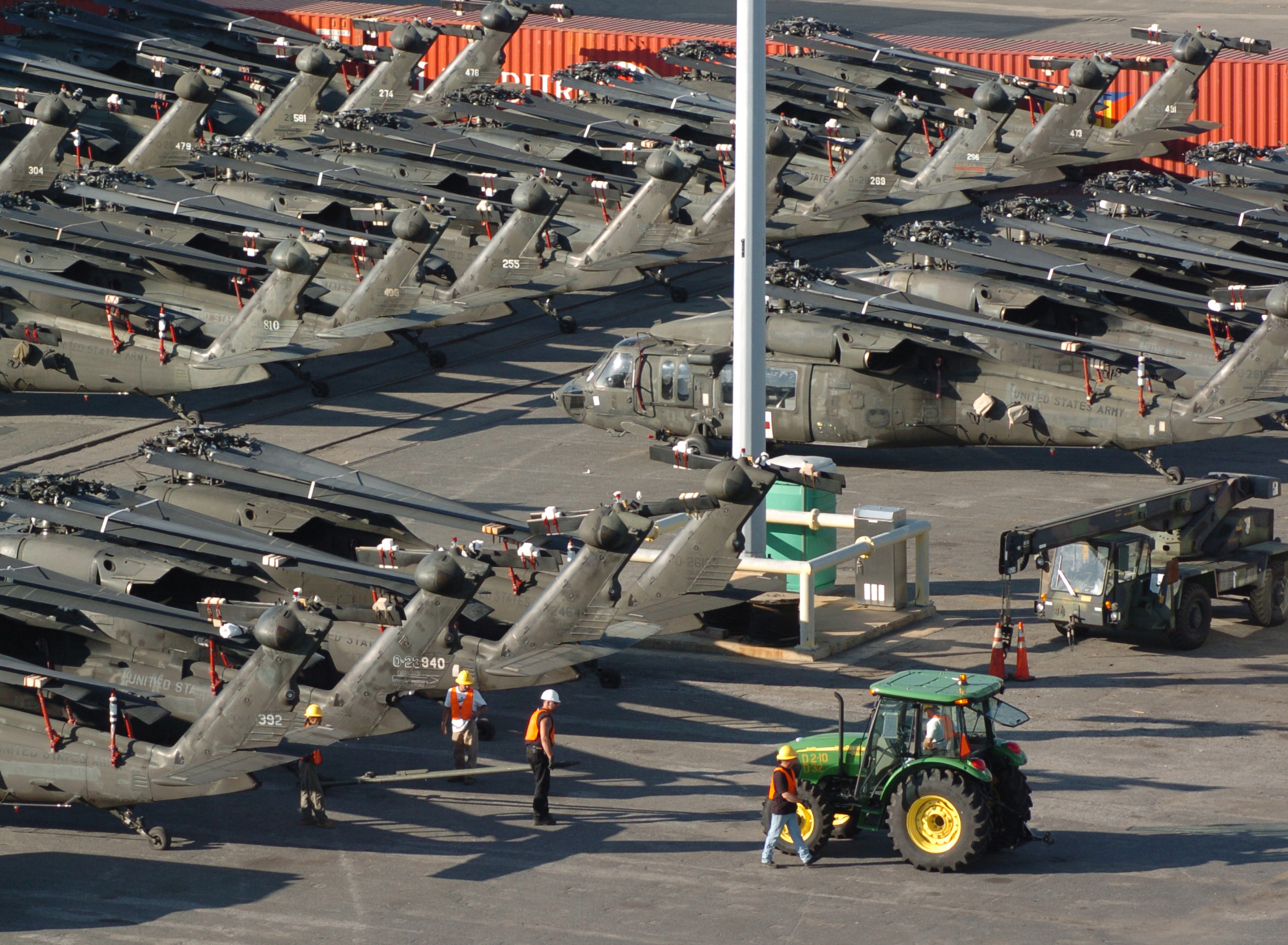 Contractors tow a UH-60 Black Hawk Helicopter of the 10th Combat Aviation Brigade at the Port of Philadelphia.